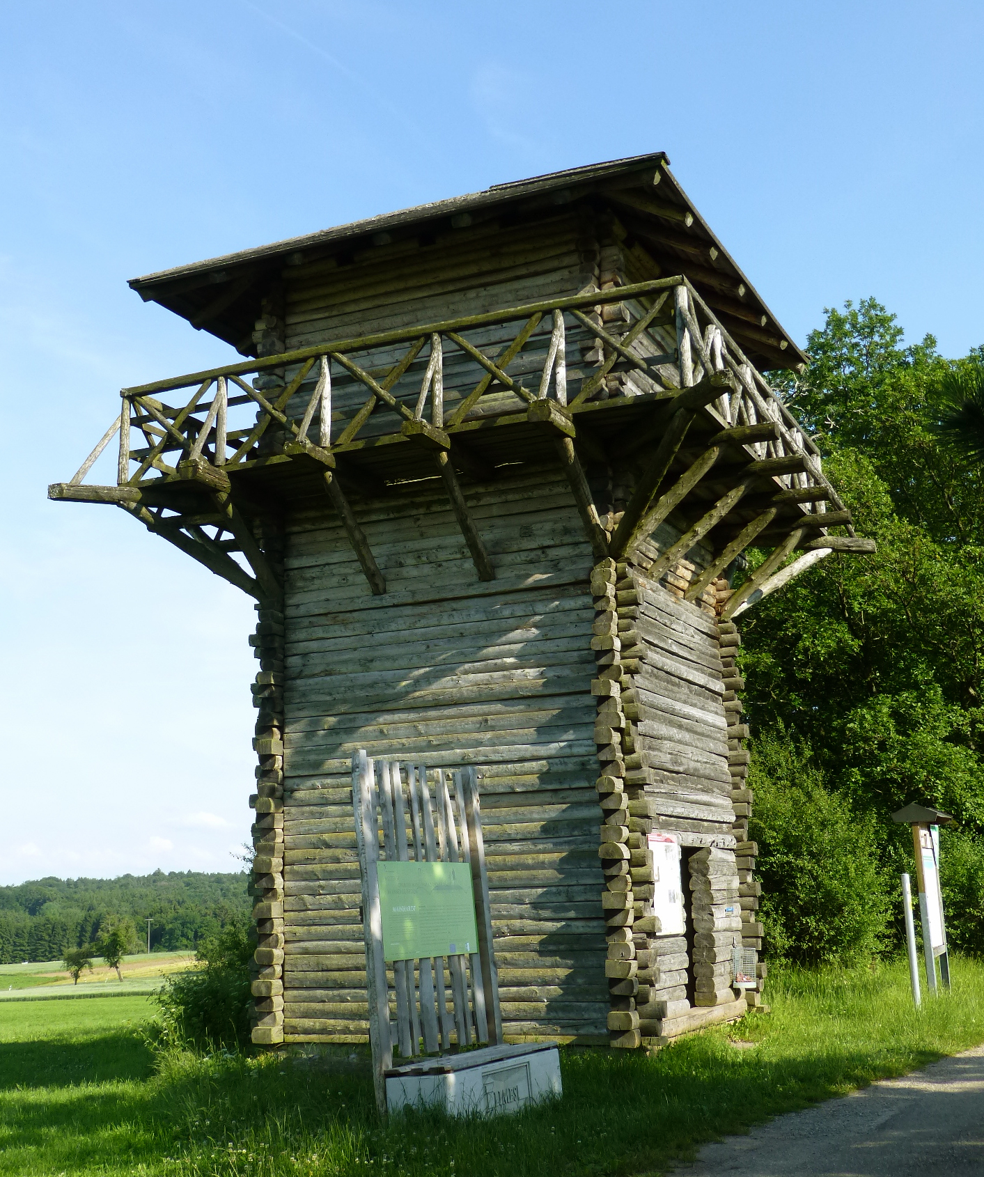 Reconstructed tower at the Limes place 9/64, Mainhardt (Baden-Wurtemberg)